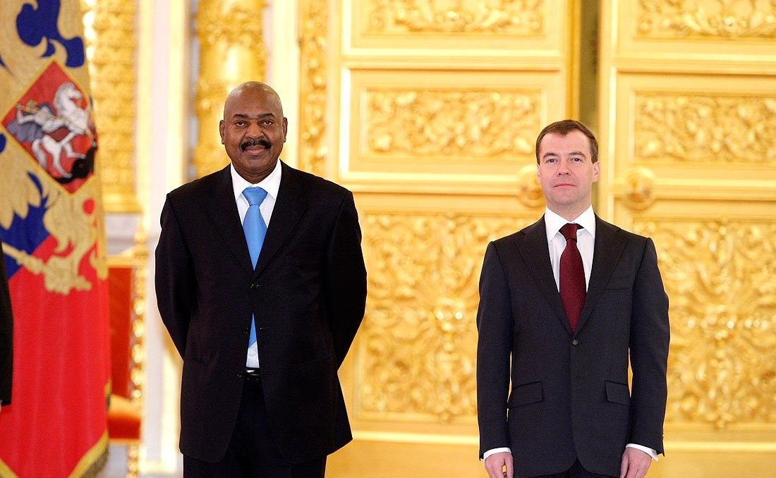 GRAND KREMLIN PALACE, MOSCOW. Presentation by foreign ambassadors of their letters of credence. Dmitry Medvedev receives a letter of credence from Ambassador of the Republic of Zambia Patrick Nailobi Sinyinza.